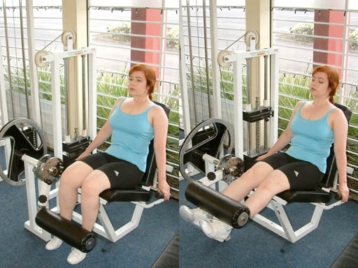 Thanks go to the model, Emily.